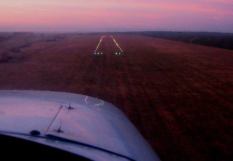 Landing at LHSK RWY33